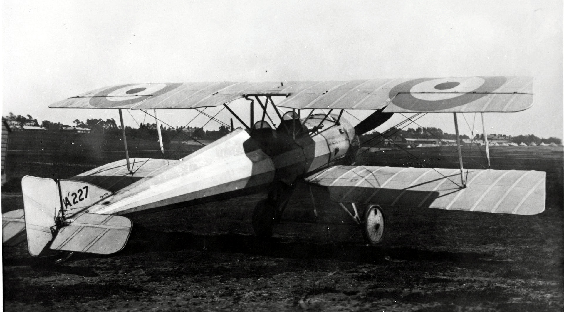 Morane-Saulnier BB French First World War reconnaissance aircraft in RFC markings